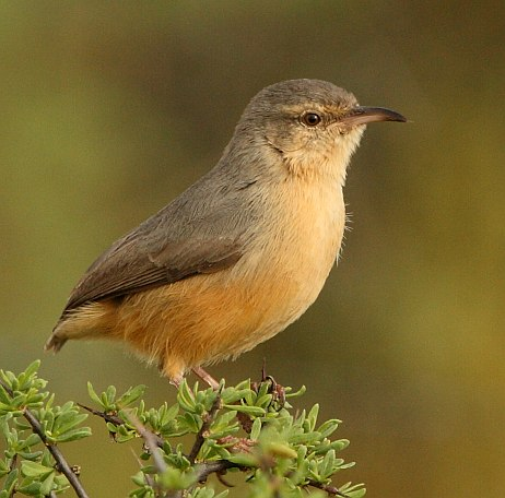 Long-billed crombec near Prieska, Northern Cape, South Africa